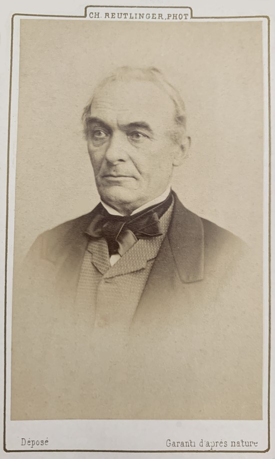 Prosper Mérimée was a great French writer wrote a colomba following his stay in Corsica